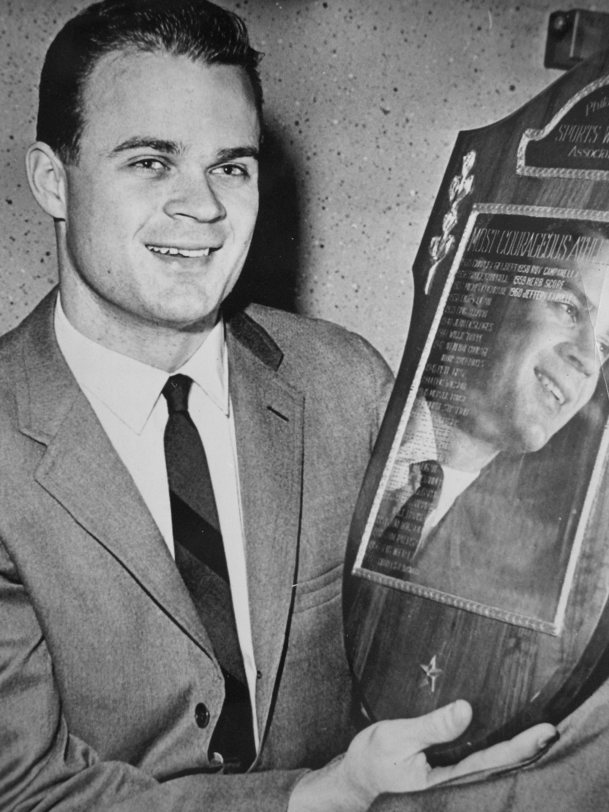 Jeffery Farrell, Oklahoma University record breaking Swimmer AP WIRE PHOTO 1960